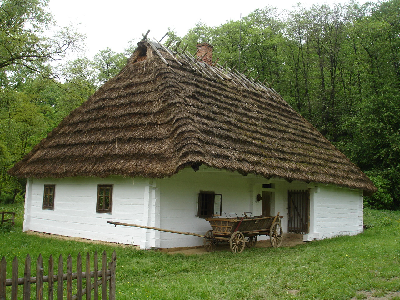 a hut from Niebocko about 1892, object exists in a Sanok-Skansen